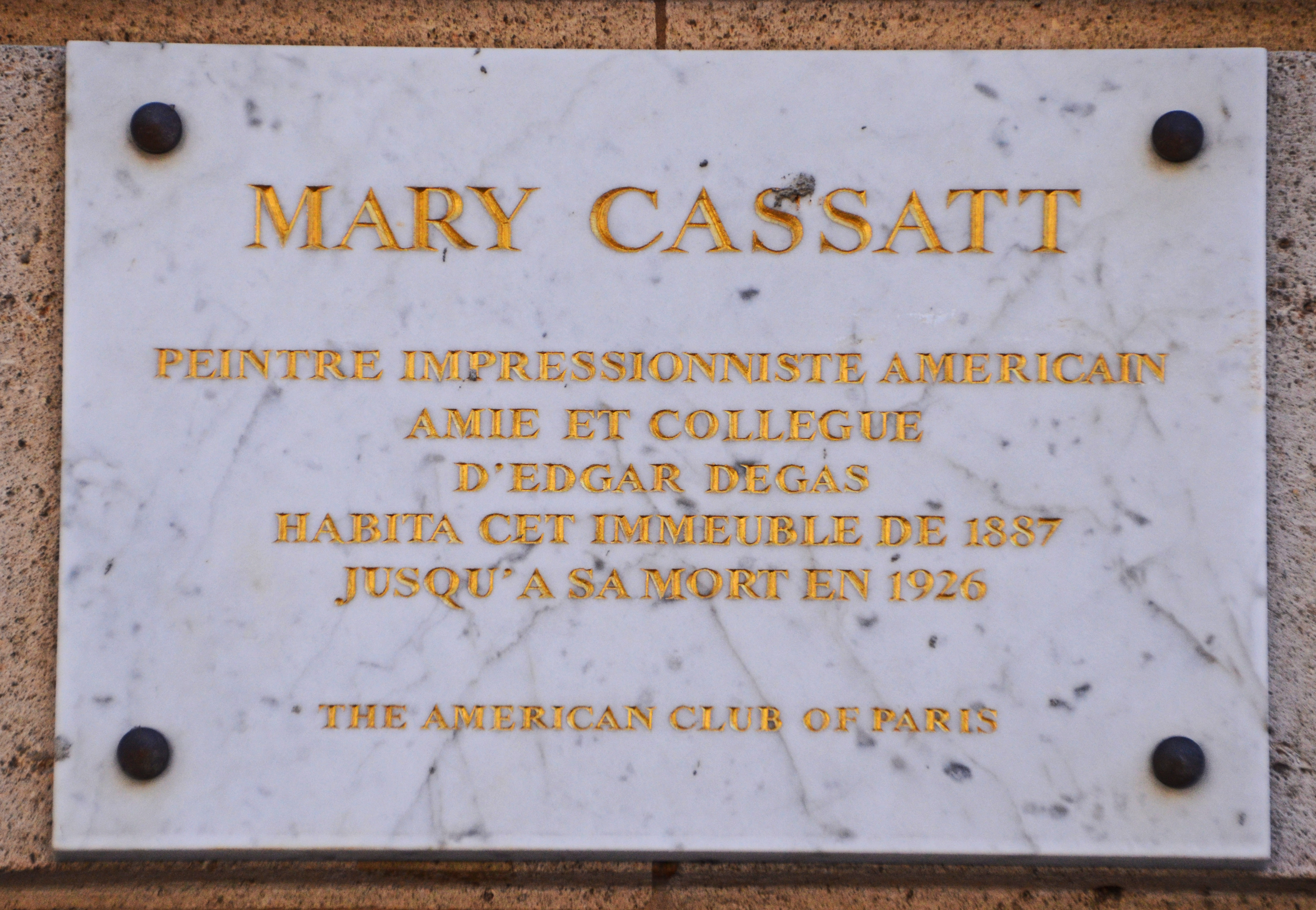 Read about this American woman Impressionist painter here